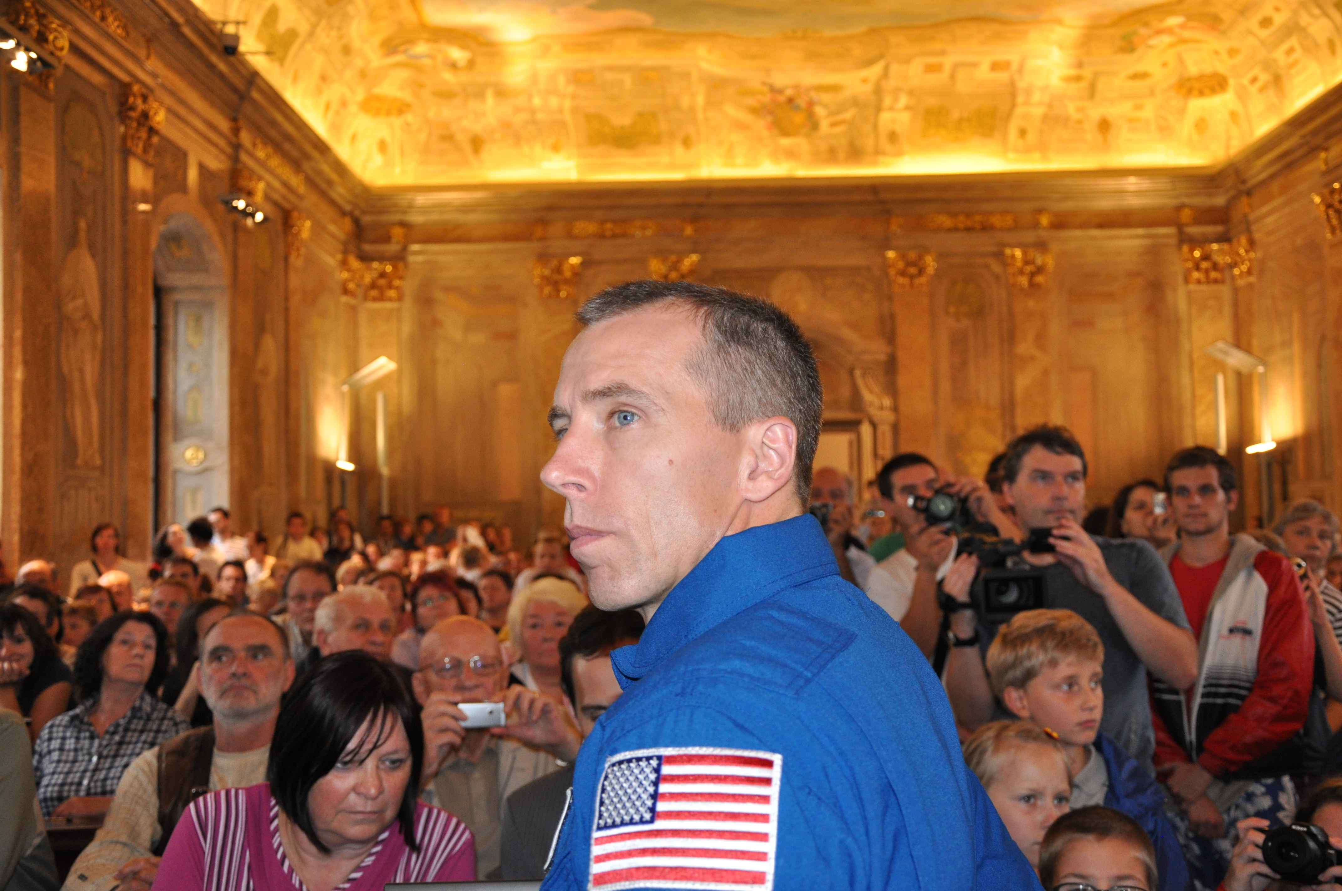 American Astronaut Andrew Jay Feustel in Brno Czech republic